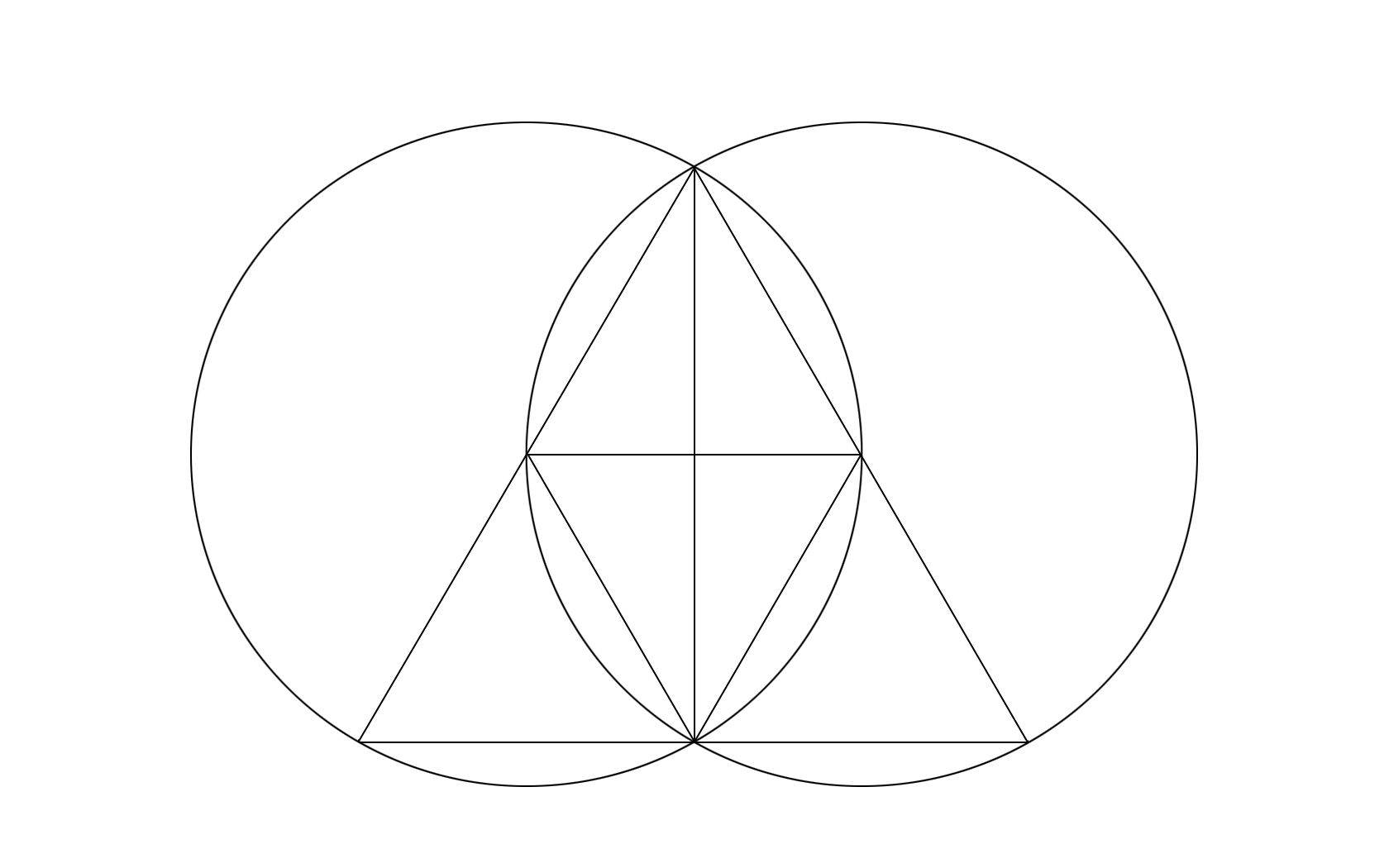 The image is a band's logo The Glitch Mob, drawn by me from scratch.